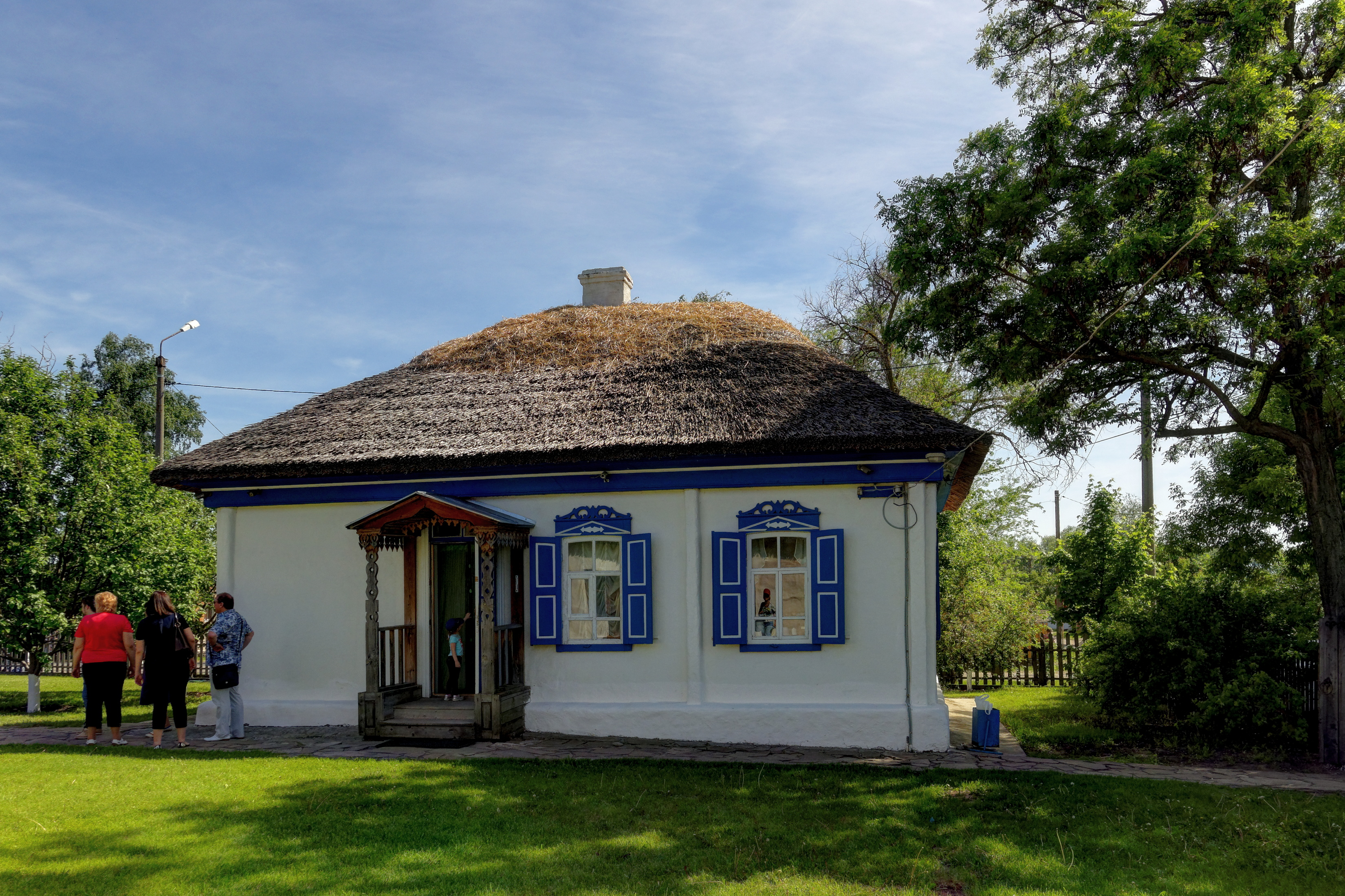 Vyoshenskaya. Mikhail Sholokhov House Museum